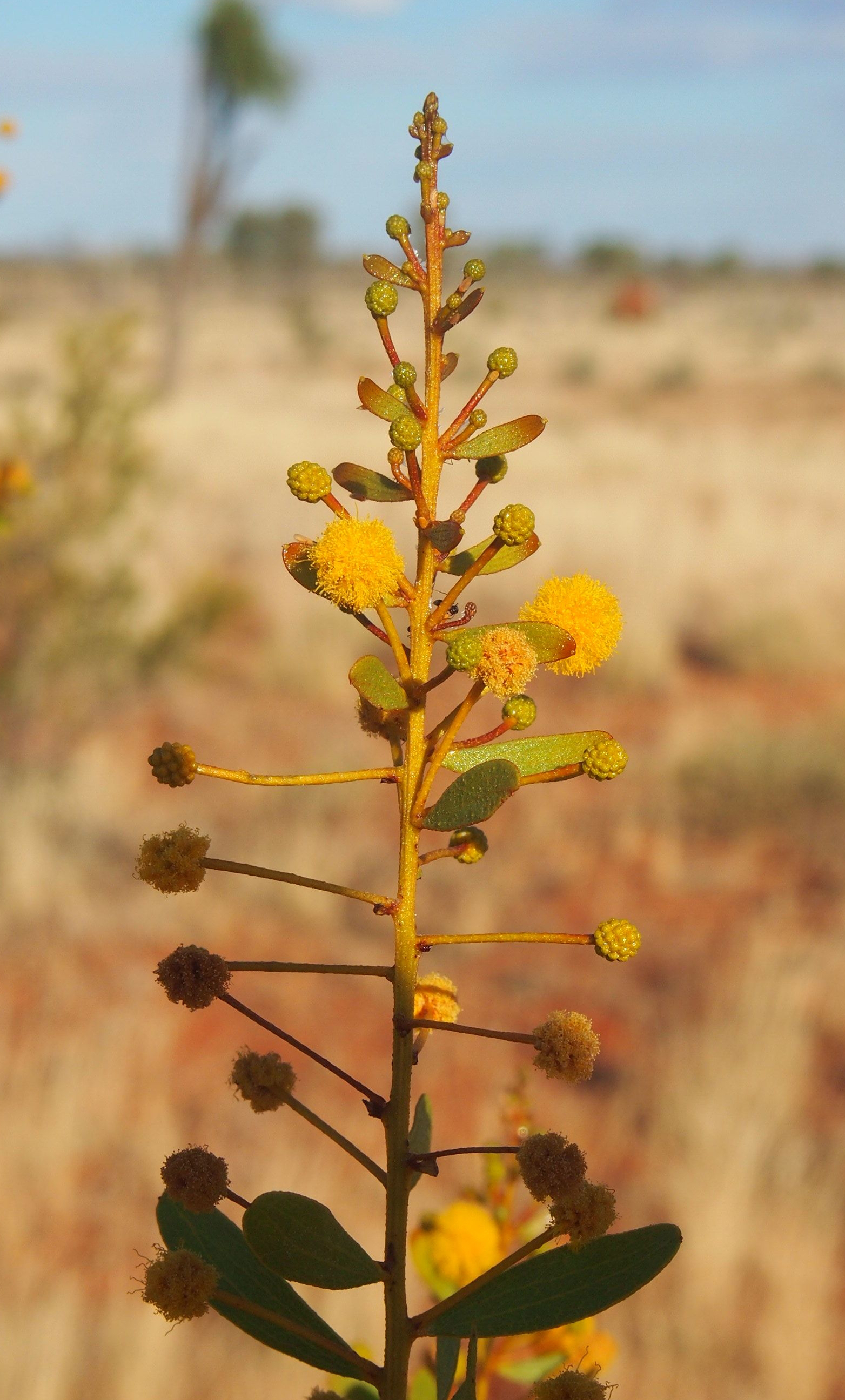 Acacia dictyophleba foliage